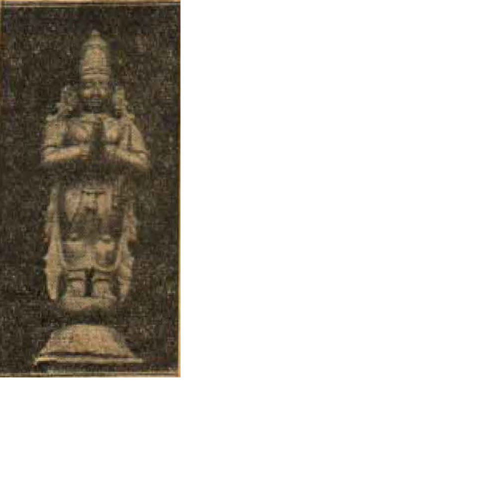 చిరుతొండడు